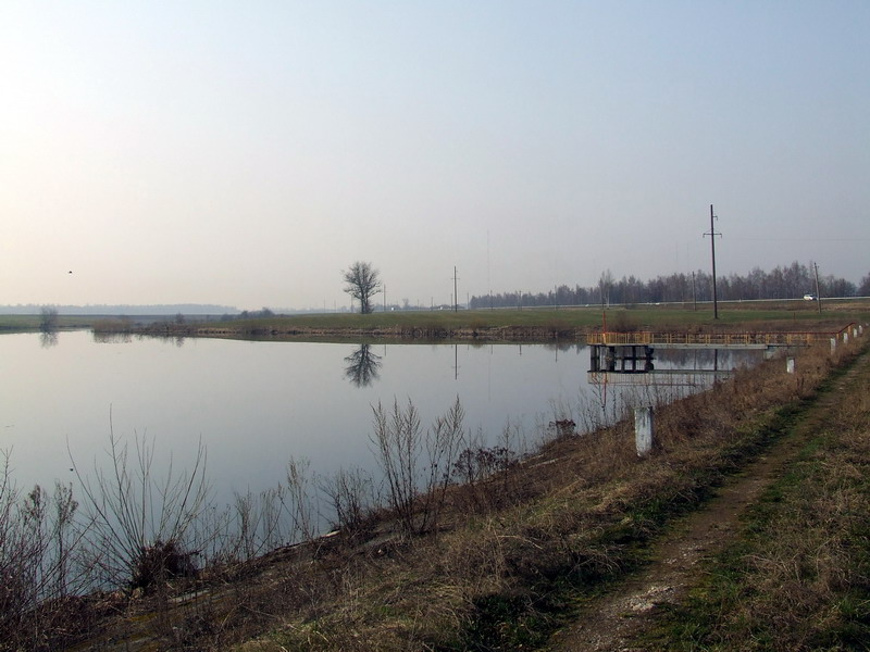 Gailiušiai pond, Kaunas district, Lithuania.